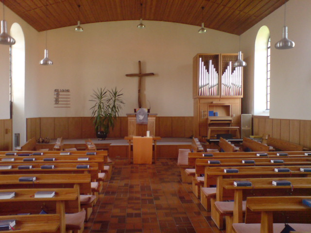 Inner of the Mennonite Church ("Bethaus") in Bolanden-Weierhof